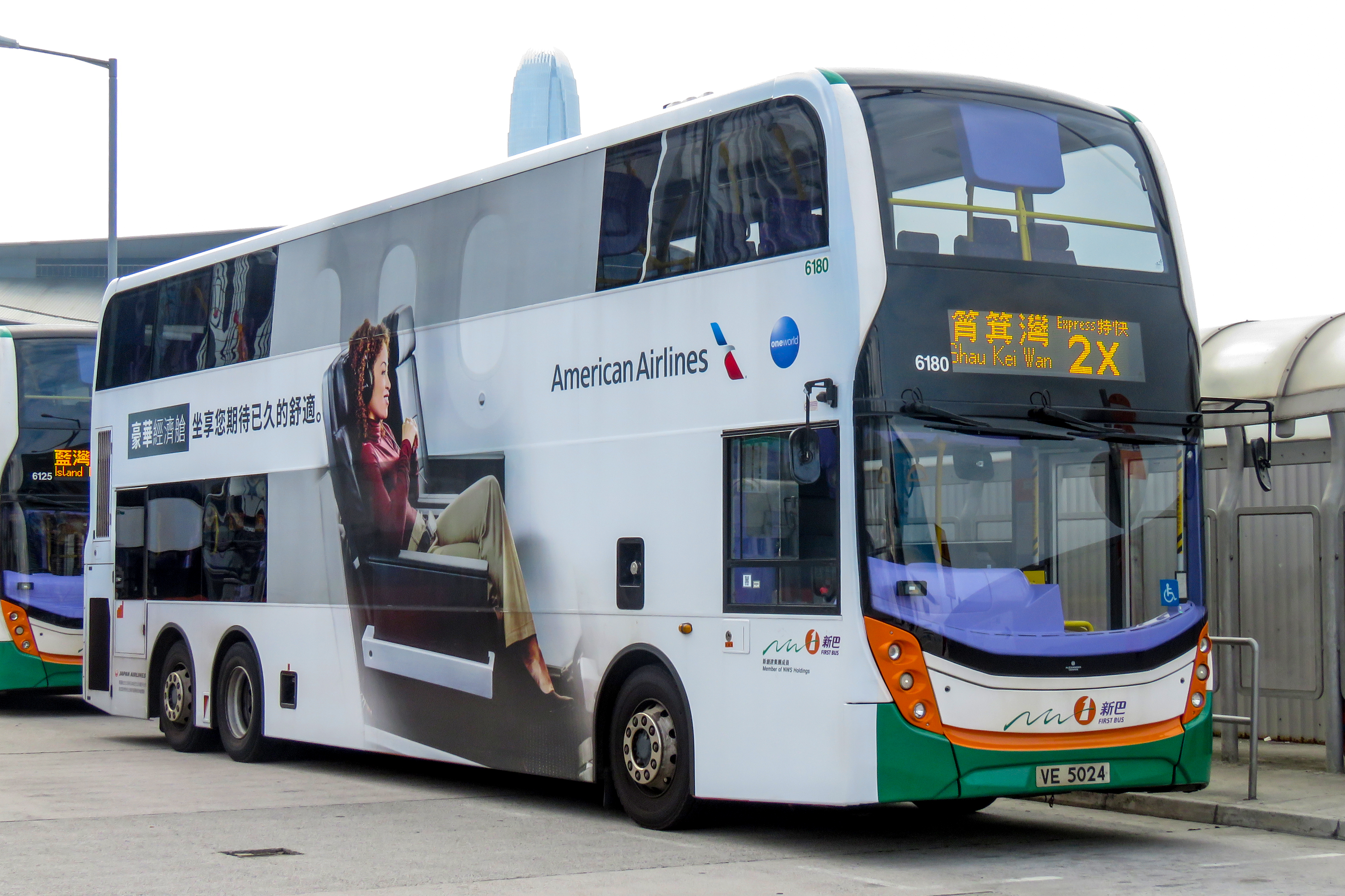 This "6180" isn't 18-meter articulated at all, and not even front-engined.